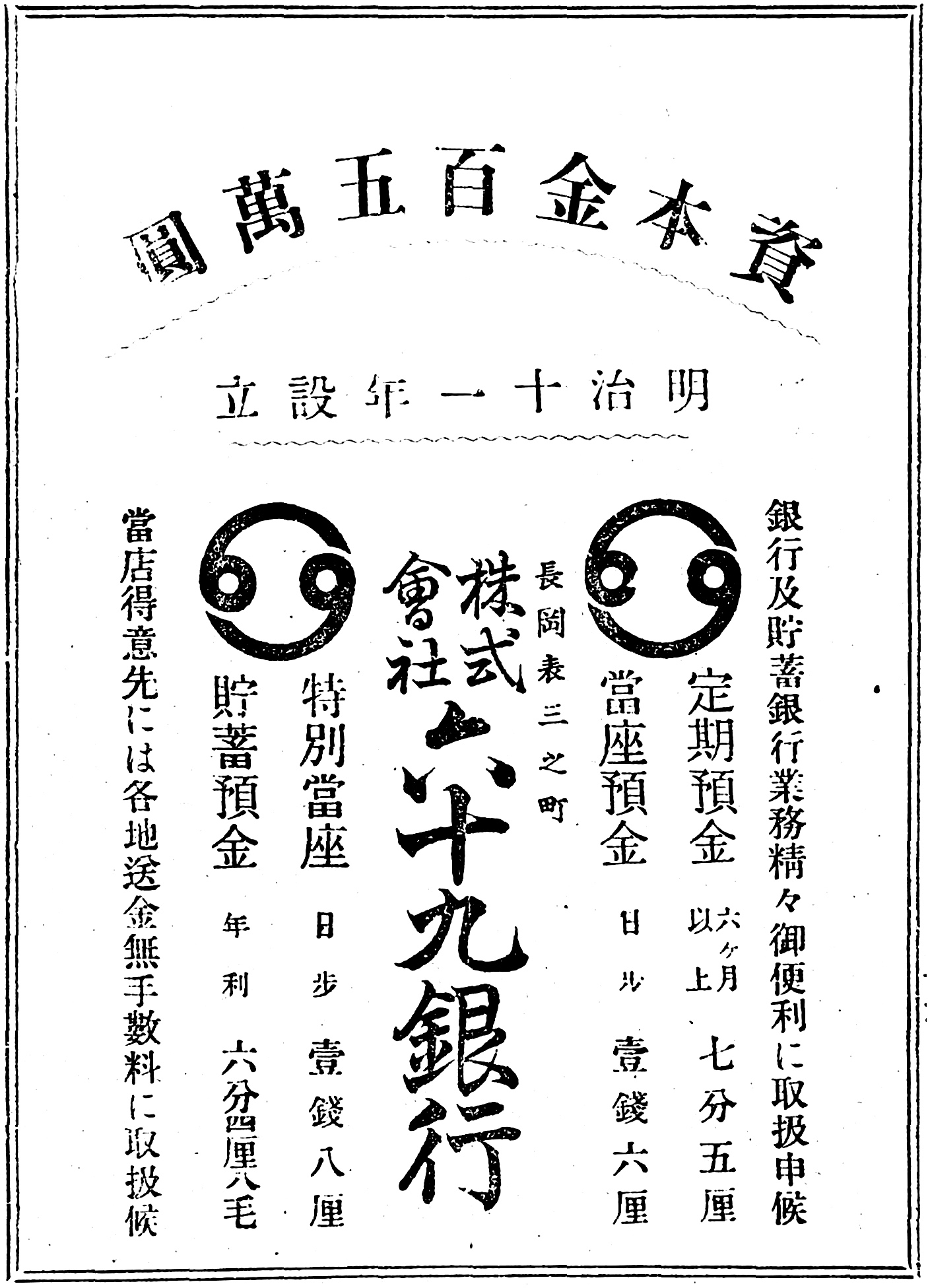 Advertisement of the Roku-jū-ku Bank (present-day "Hokuetsu Bank")